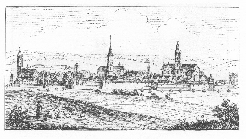 View of Ehingen